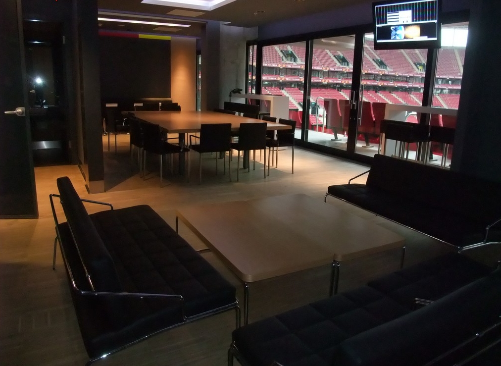 A suite in Türk Telekom Arena.